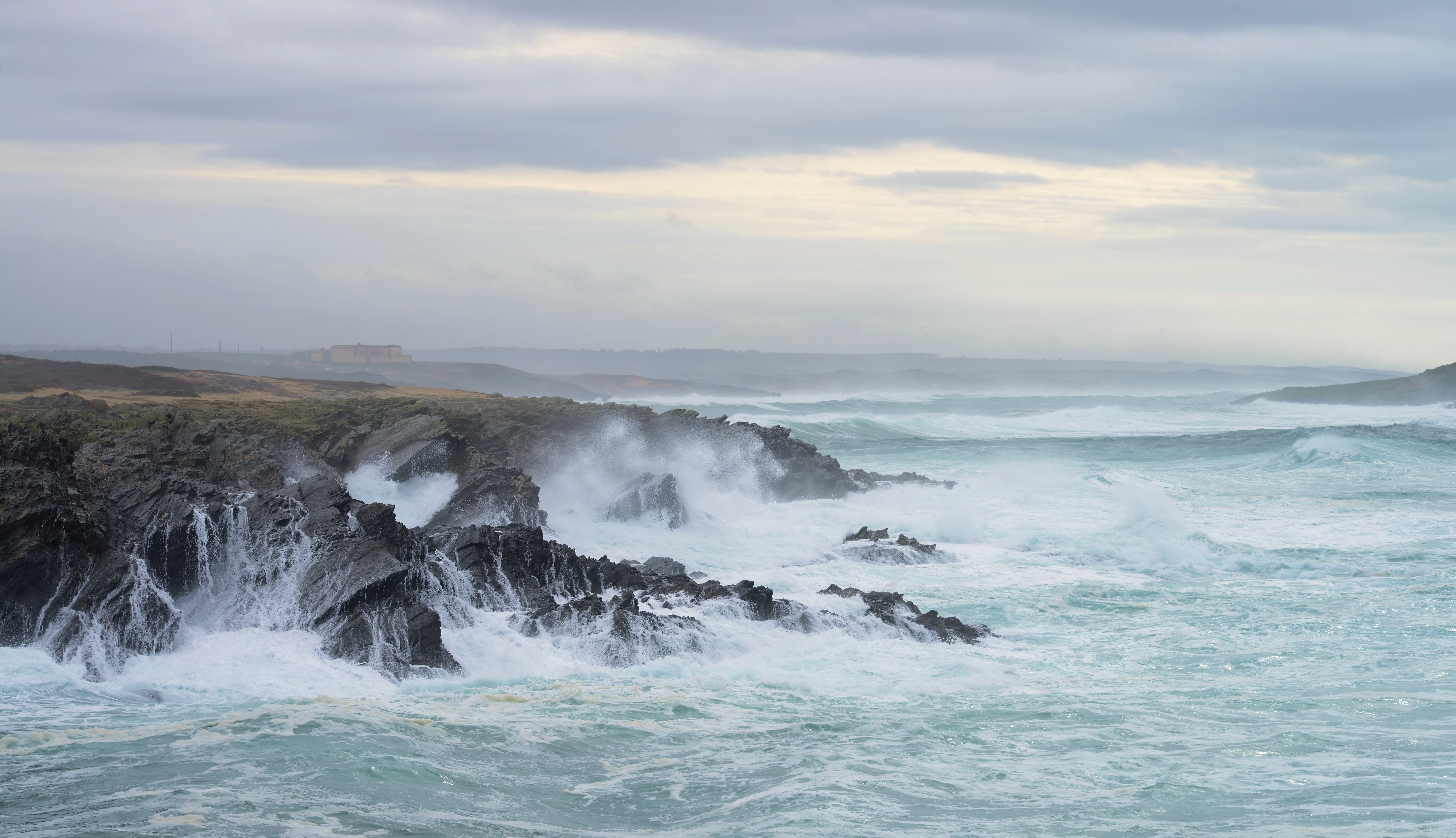 Surf and foam in a stormy sea. Porto Covo, Portugal